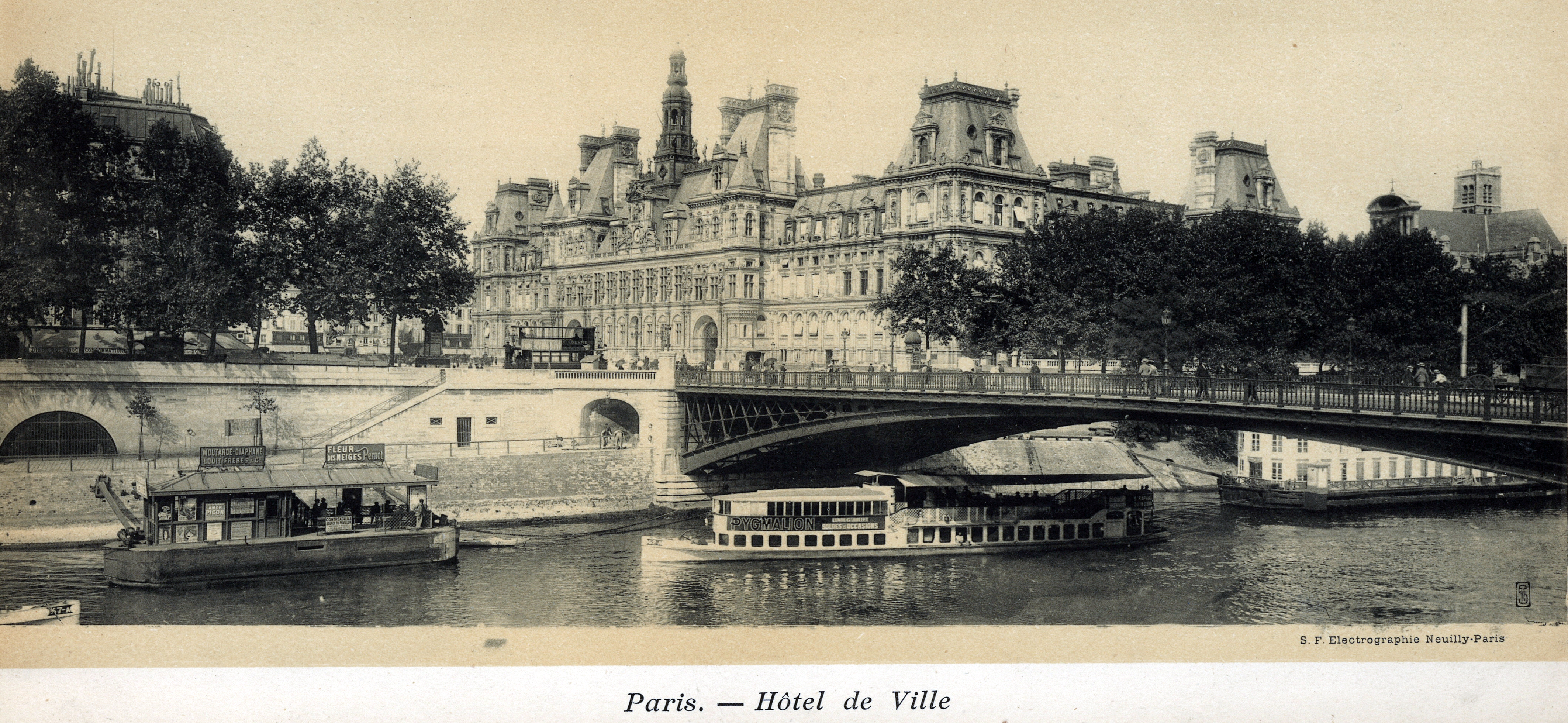 Turn of the century photo of Hotel de Ville from the Seine with omnibus